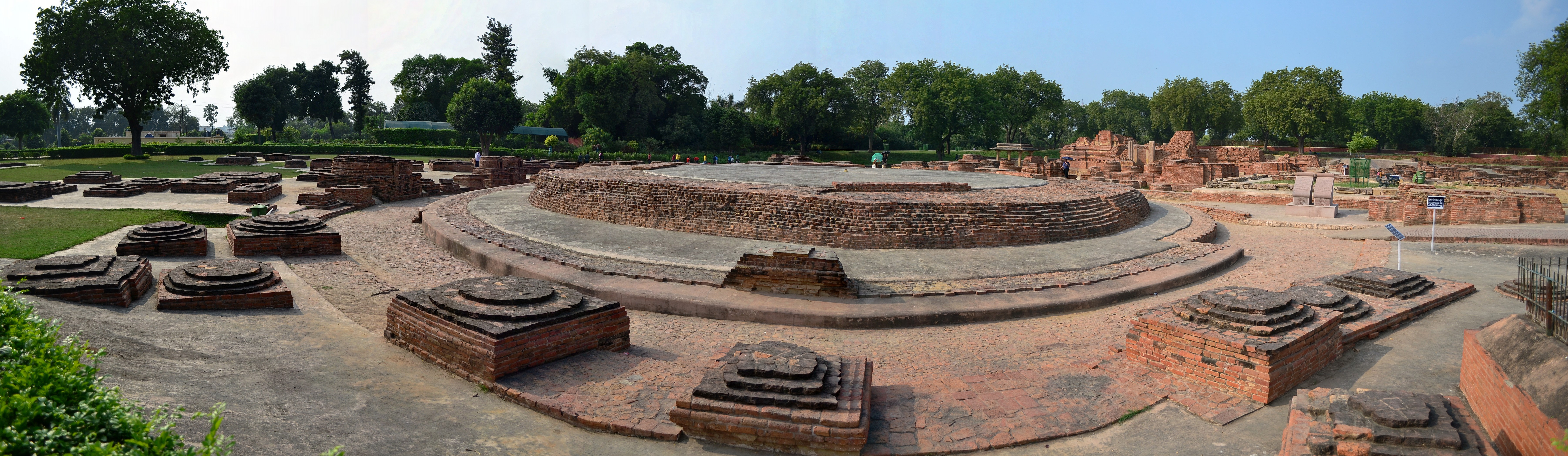 Location:Sarnath, India.